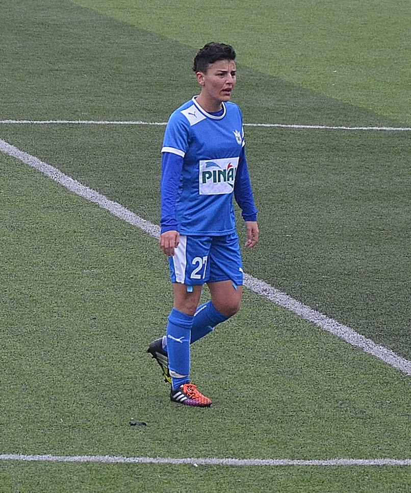 Cansu Yağ for Konak Belediyespor in the 2013-14 season